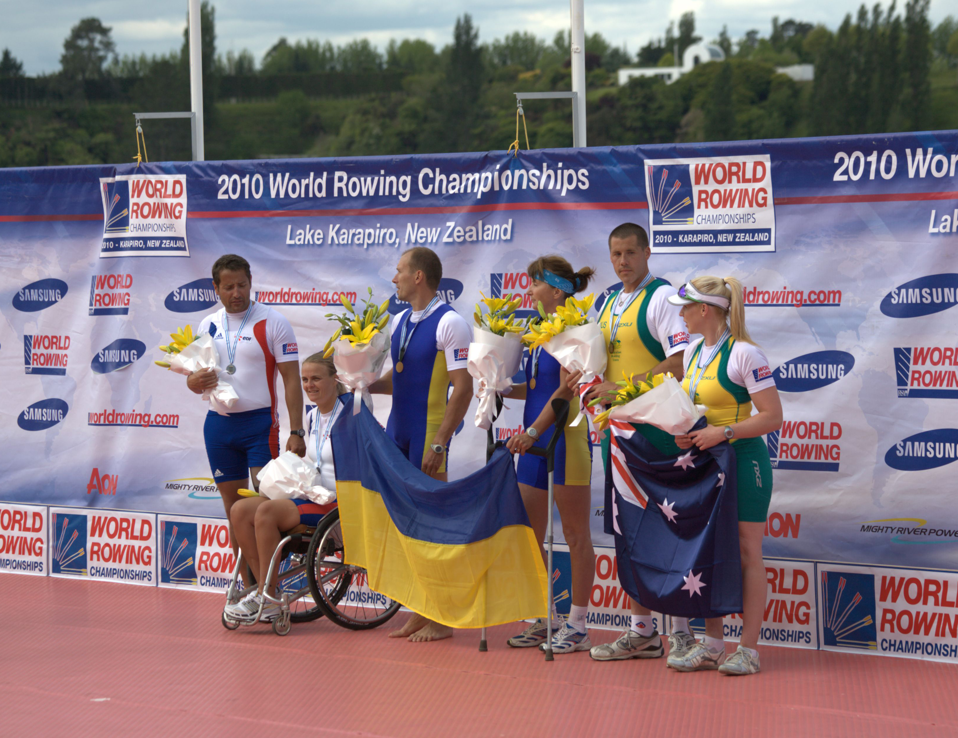 Gold: Ukraine; silver: France; bronze: Australia 2010 World Rowing Championships.